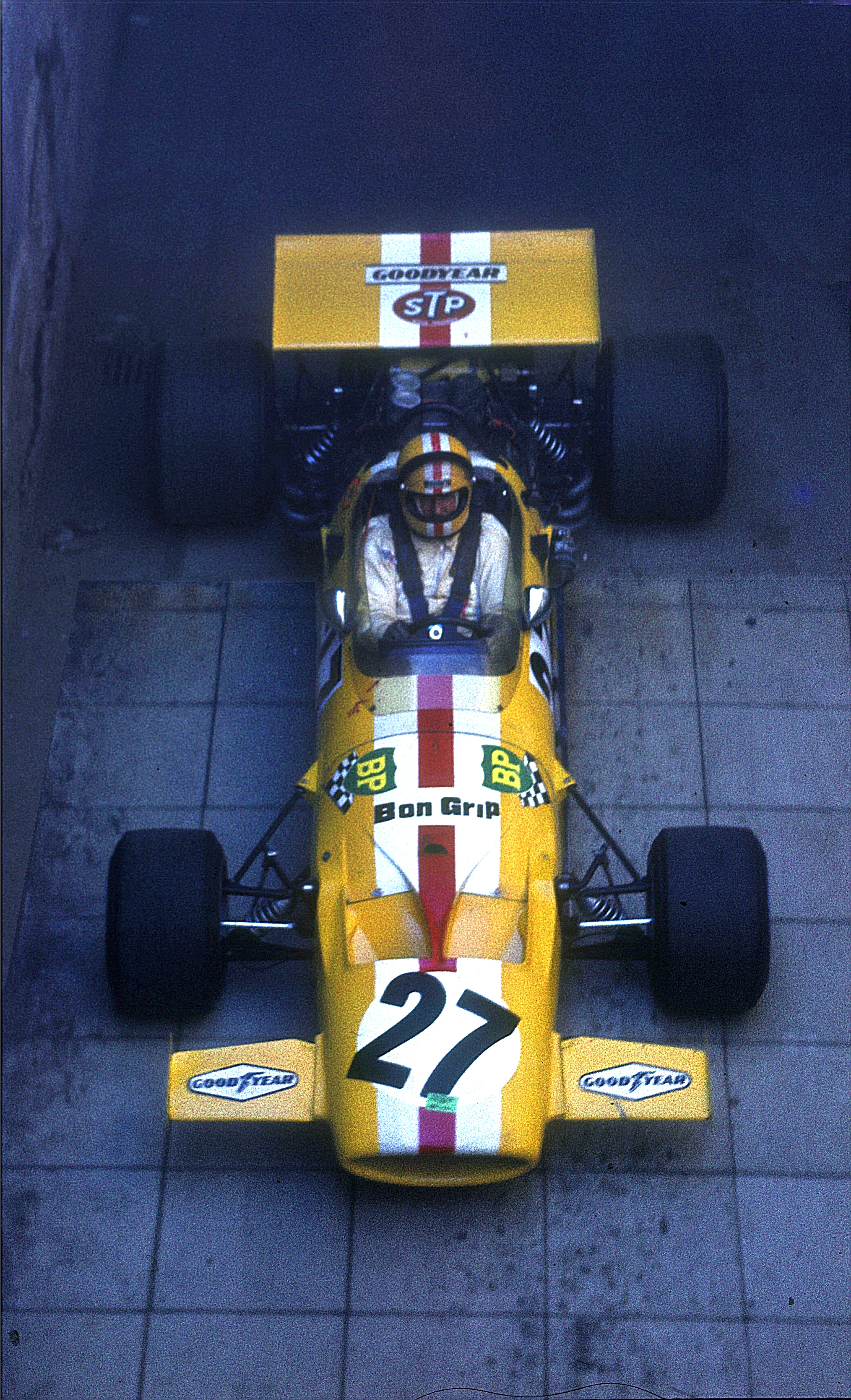 Joakim Bonnier in the drive from the paddock to the start place. The carriage: McLaren M7C